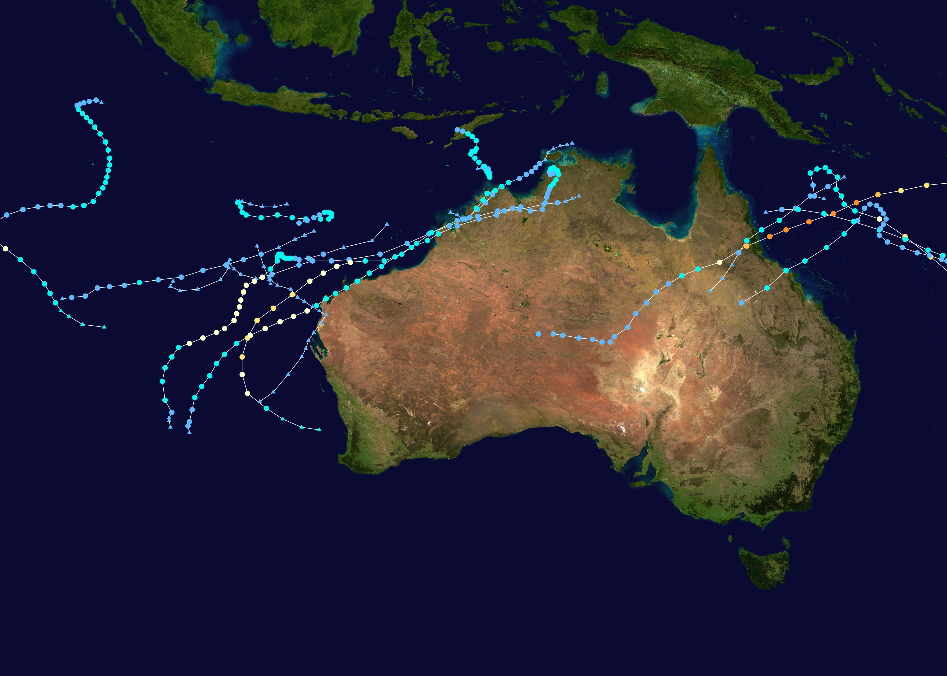 This map shows the tracks of all tropical cyclones in the 2010-11 Australian region cyclone season. The points show the location of each storm at 6-hour intervals. The colour represents the storm's maximum sustained wind speeds as classified in the Saffir-Simpson Hurricane Scale (see below), and the shape of the data points represent the type of the storm. Saffir–Simpson scale Tropical depression≤38 mph≤62 km/h Category 3111–129 mph178–208 km/h Tropical storm39–73 mph63–118 km/h Category 4130–156 mph209–251 km/h Category 174–95 mph119–153 km/h Category 5≥157 mph≥252 km/h Category 296–110 mph154–177 km/h Unknown Storm type Tropical cyclone Subtropical cyclone Extratropical cyclone / Remnant low / Tropical disturbance / Monsoon depression